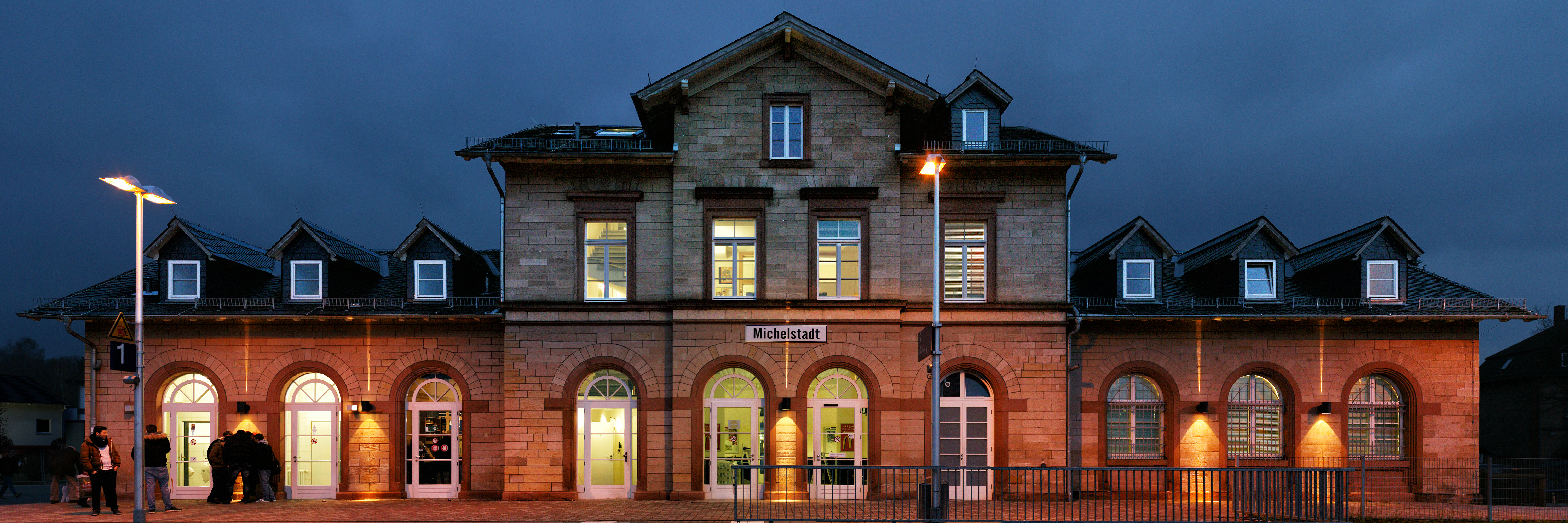 The railroad station in Michelstadt